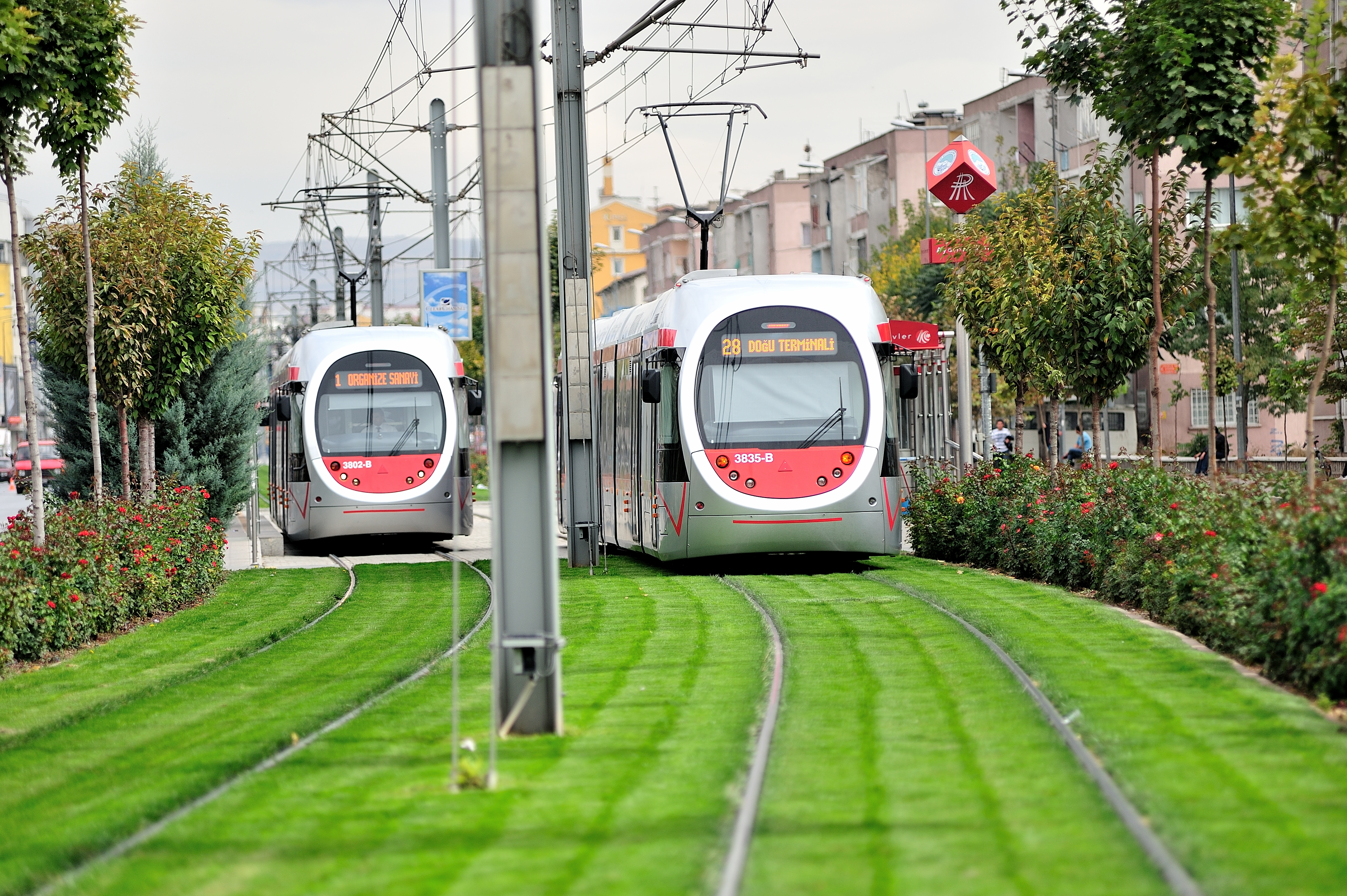 Kayseri Tramvayı - Kayseray